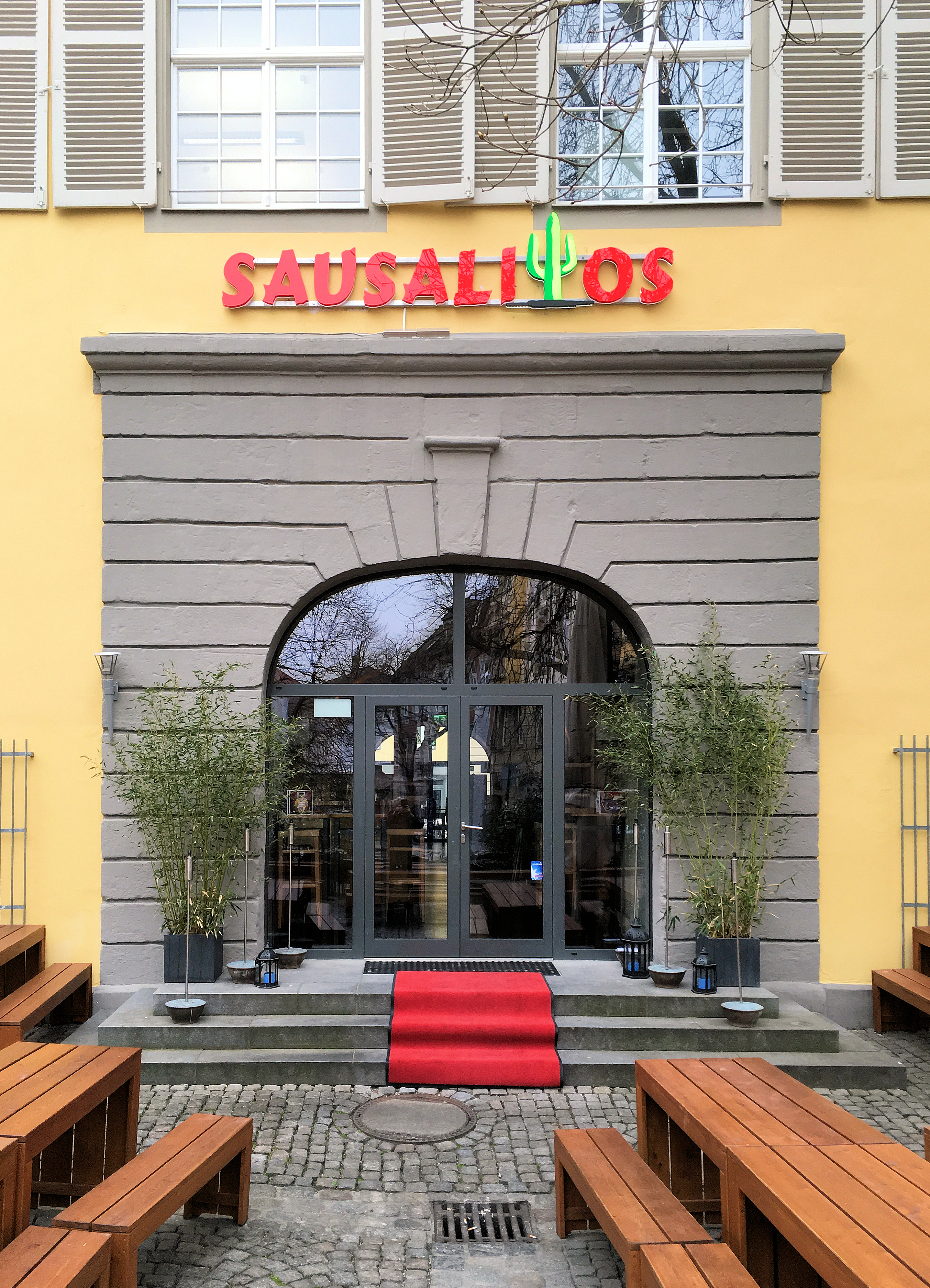 Town gate built by Vauban on the road leading to Breisach